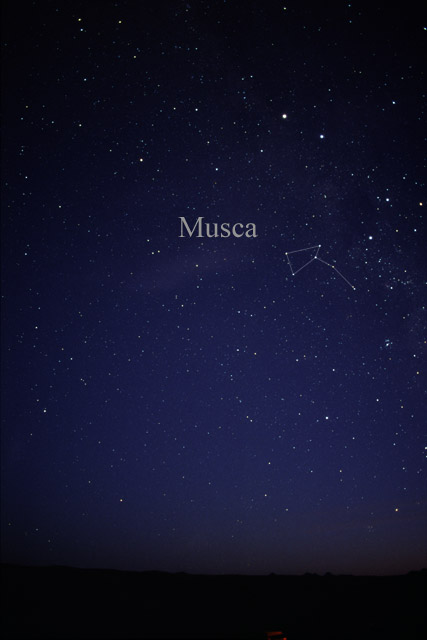 Photo of the constellation Musca, the fly